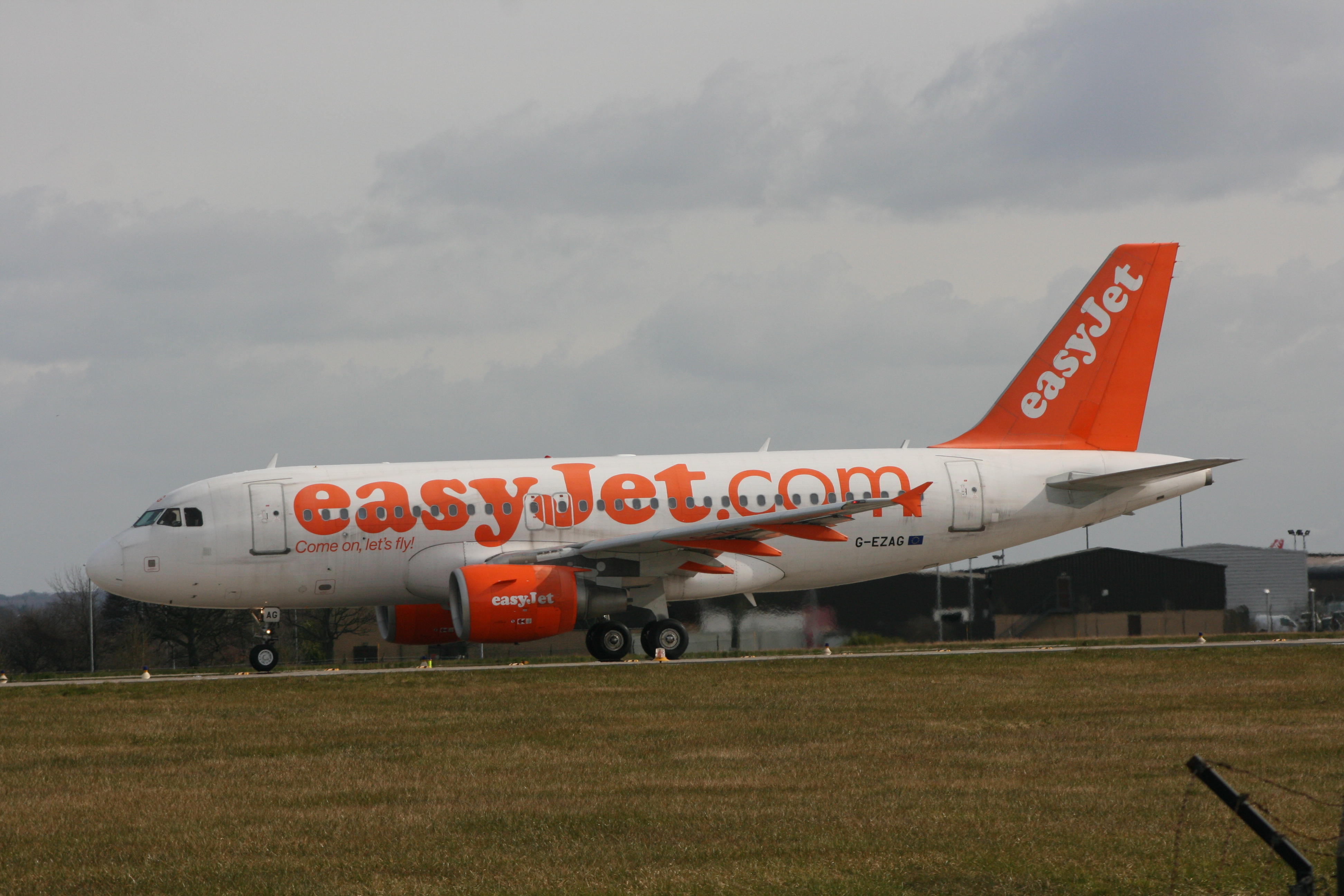 Back tracking for a runway 14 departure